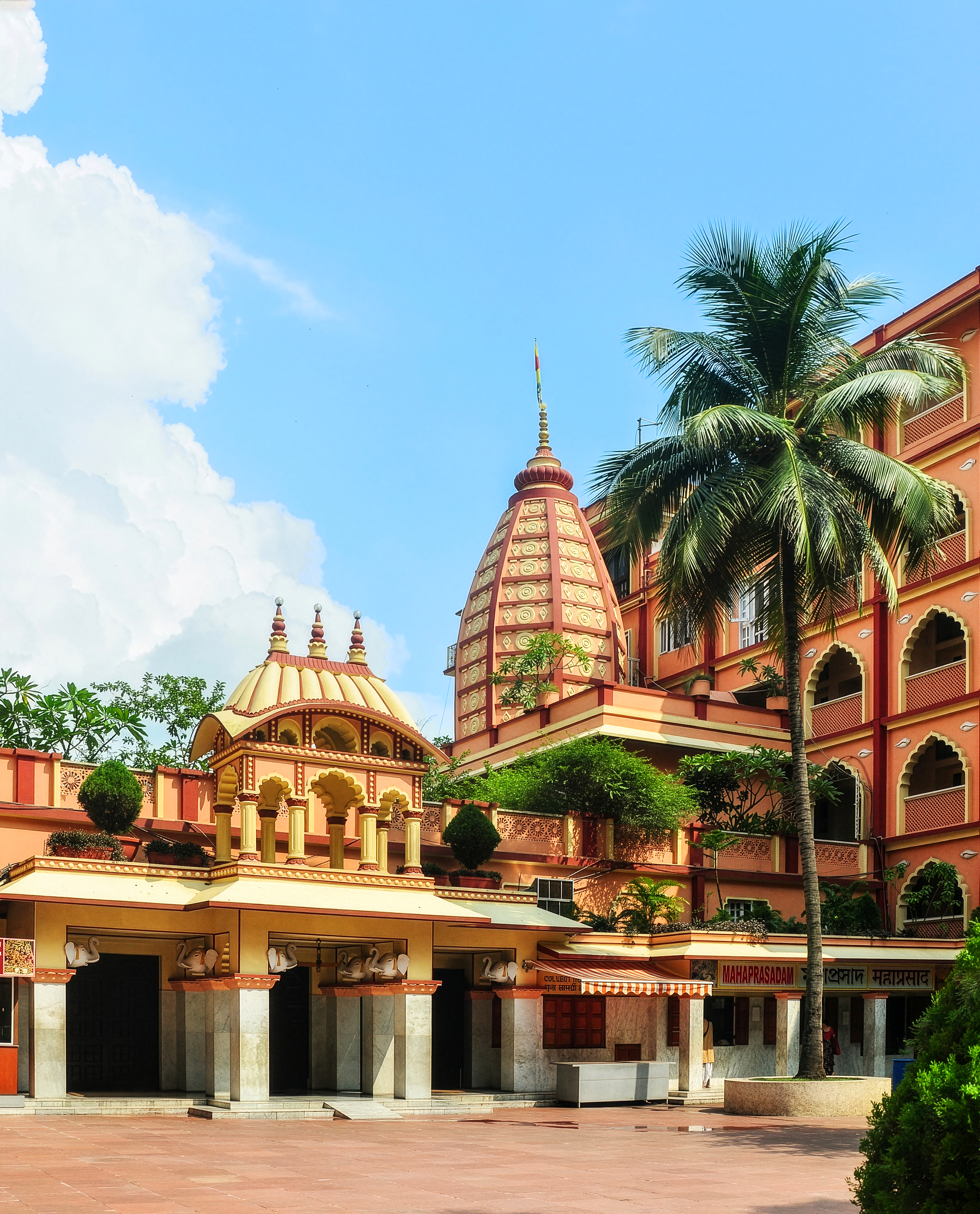 Sri Krishna Temple at ISKCON, Mayapur, West Bengal, India.